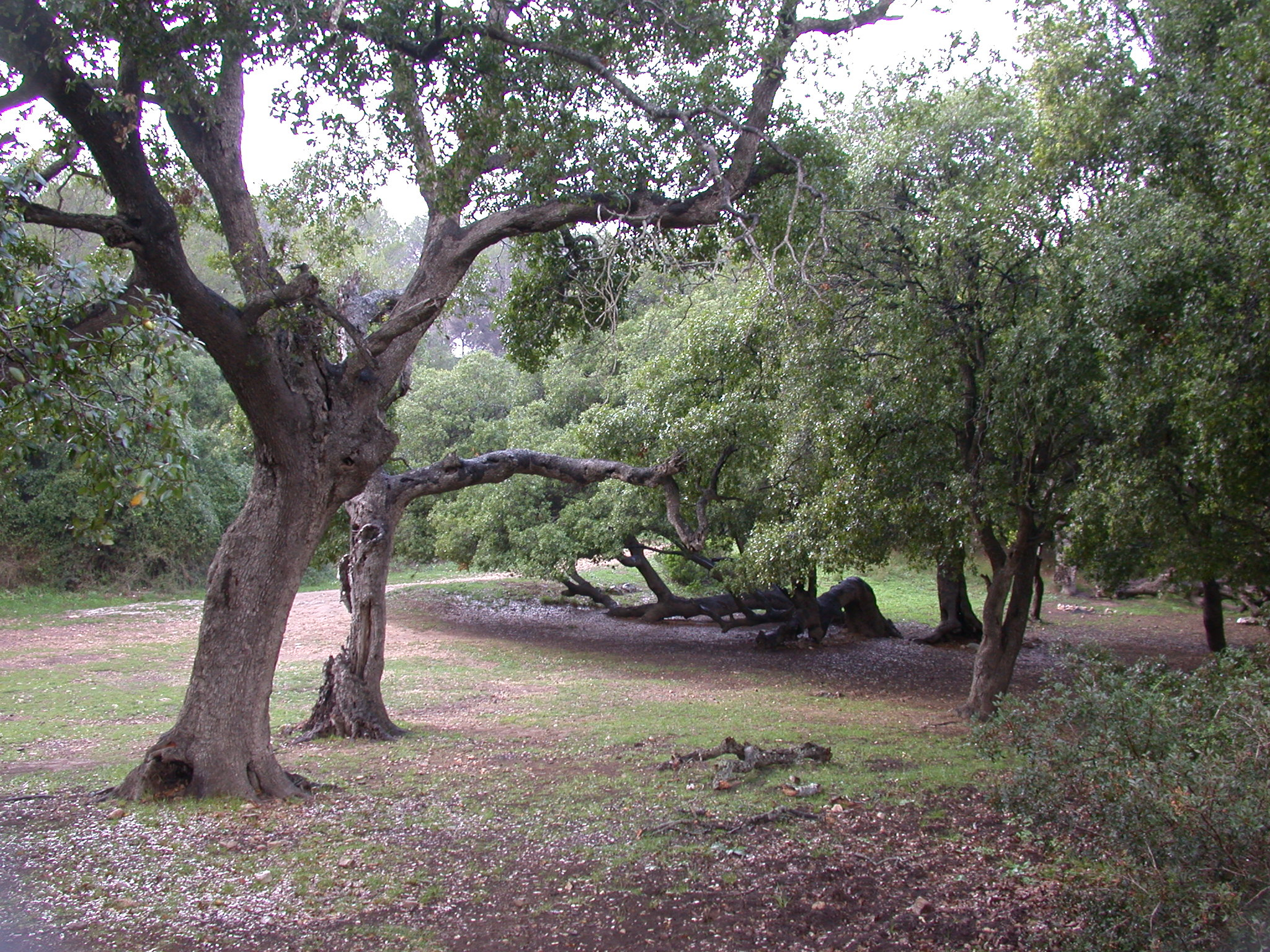 Old sacred trees of Quercus calliprinos at Shajarat Al Arba'in (Horshat Ha'arba'im), Mount Carmel, Israel, November 20, 2008